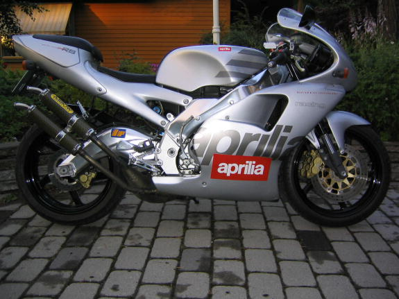 1997 Aprilia RS250 motorcycle